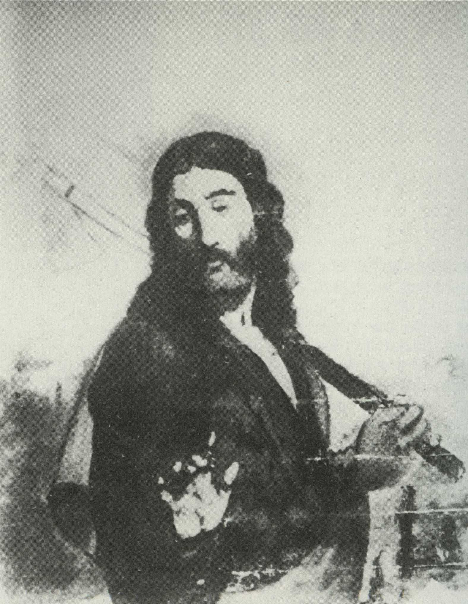 Uncut version